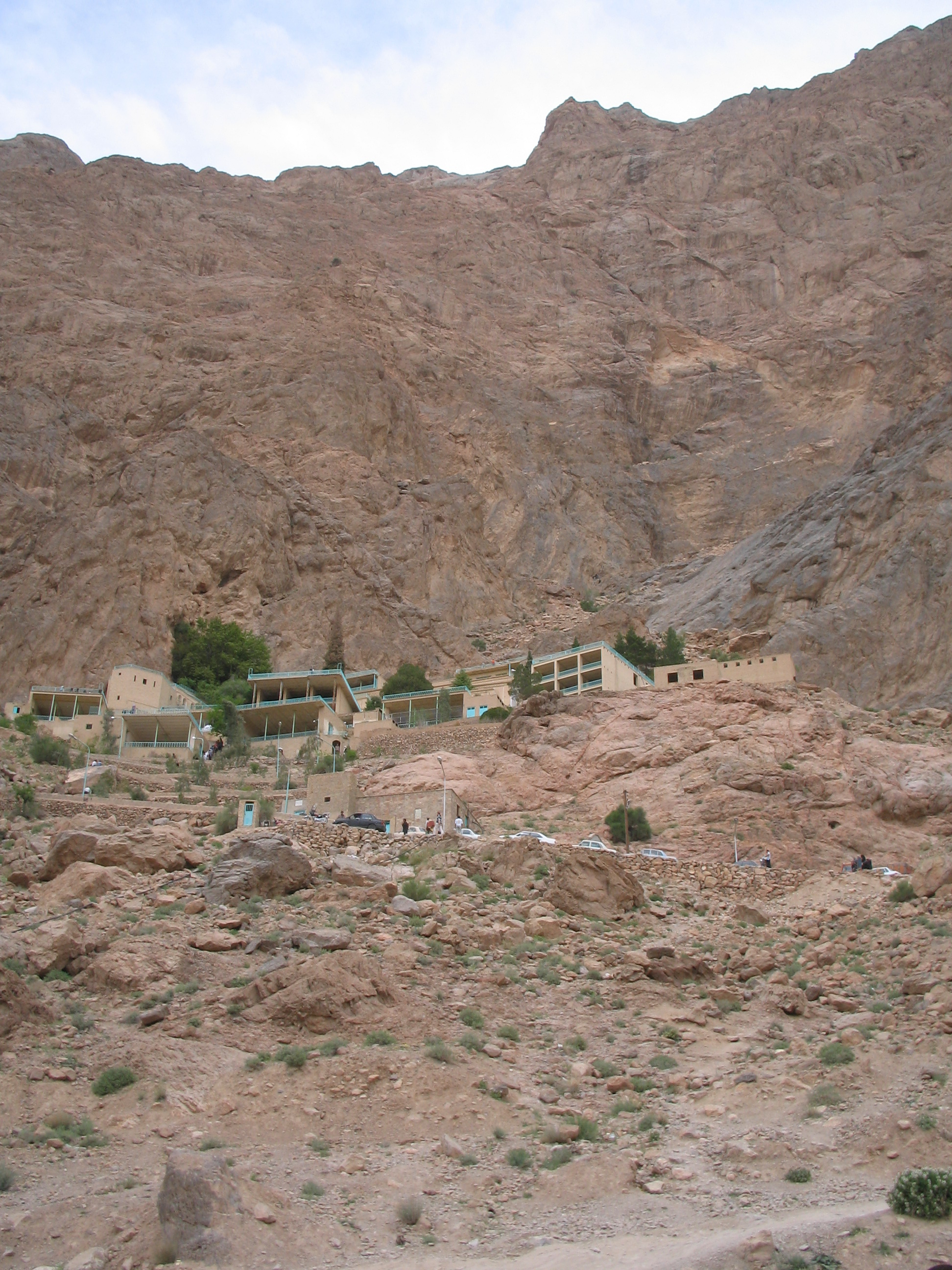 Chak Chak,a Zoroastrian pilgrimage site in Yazd, Iran